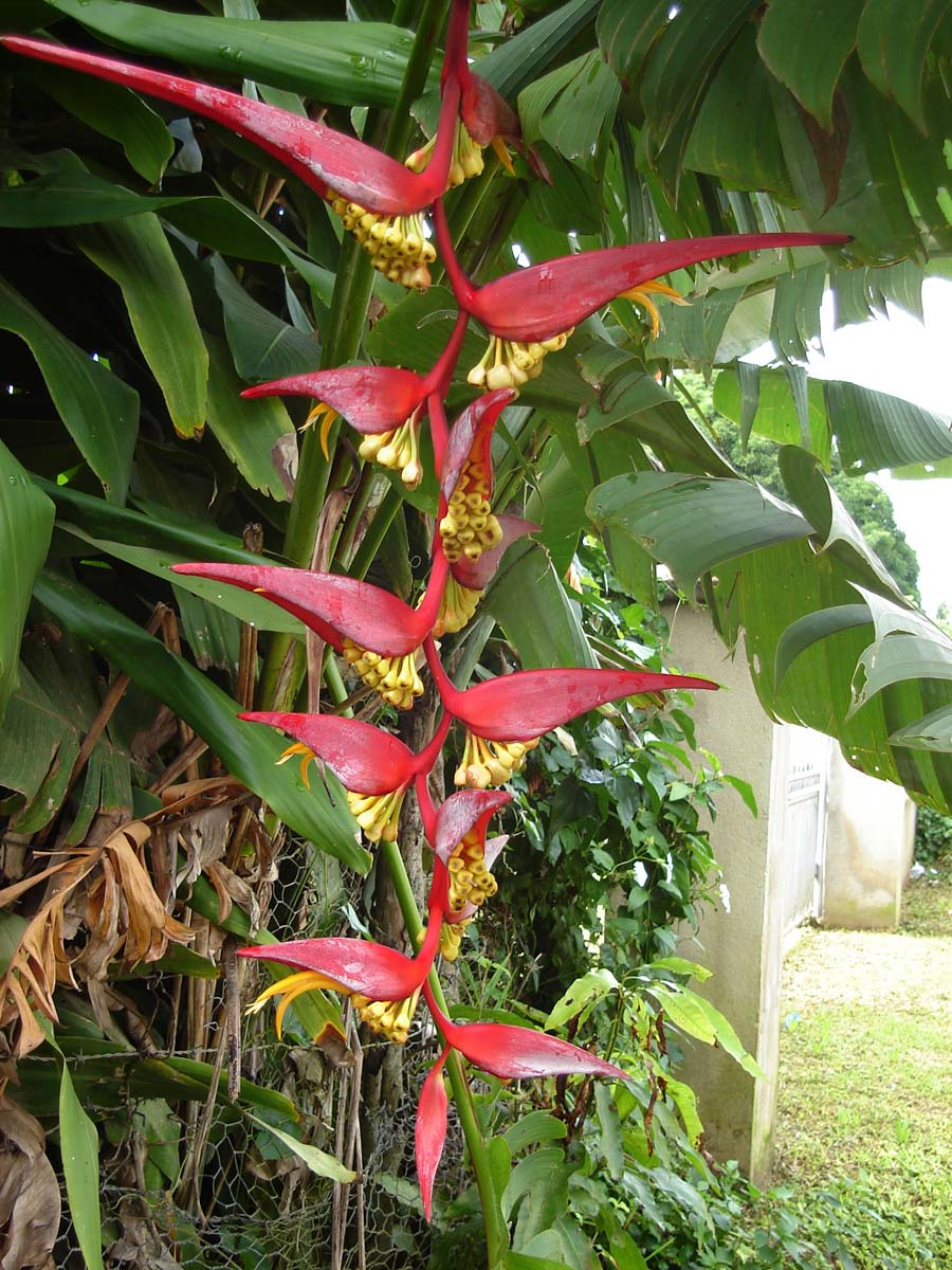 Heliconia collinsiana var. collinsiana, red bird of paradise (?) in a Tongan garden